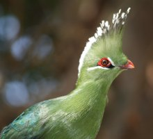 A captive Livingstone's Turaco in the San Diego Wild Animal Park. The fine bill and facial stripes are characteristic of the particular race.